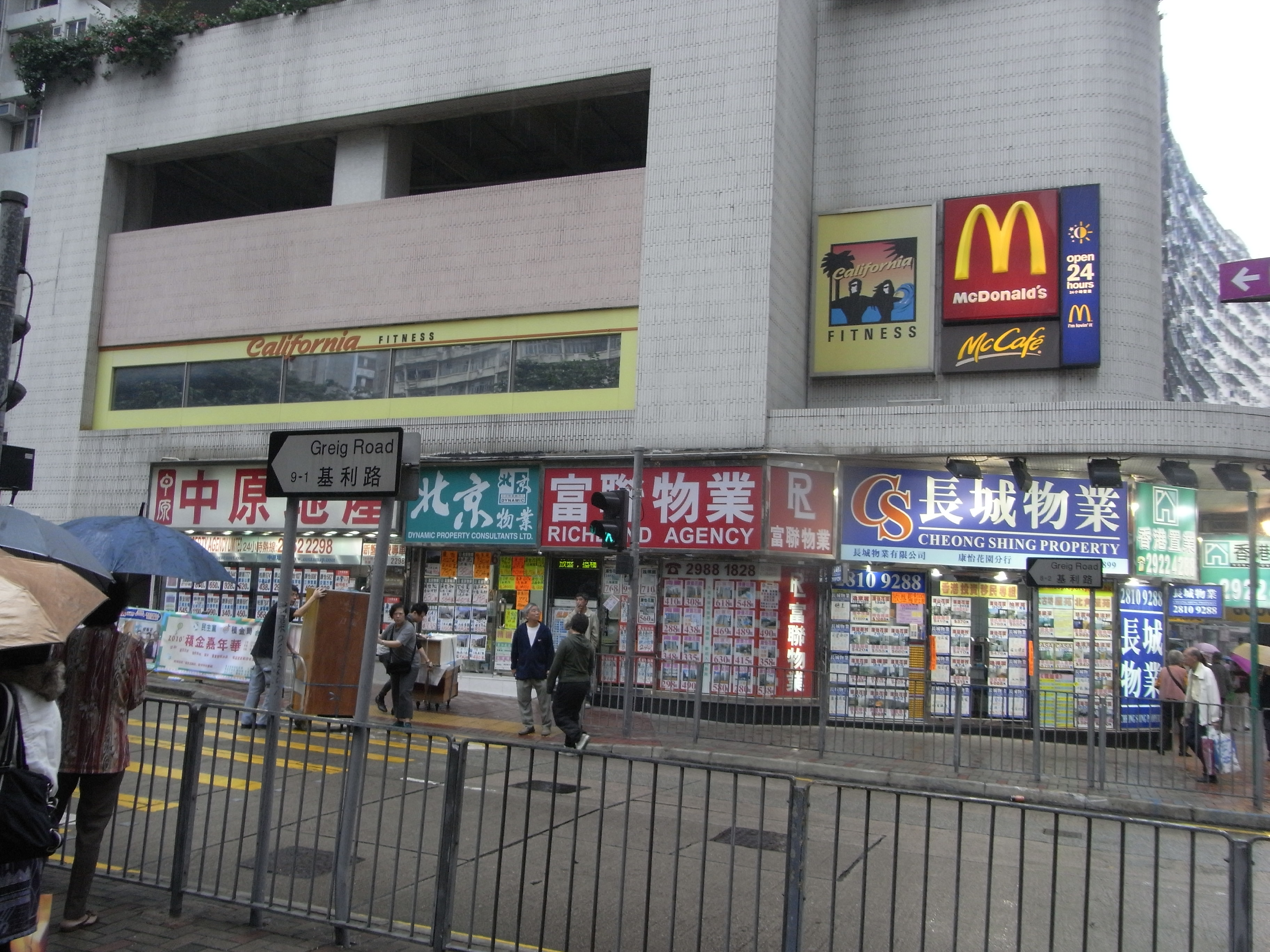 香港島東區Corner of Greig Road and King's Road, Quarry Bay